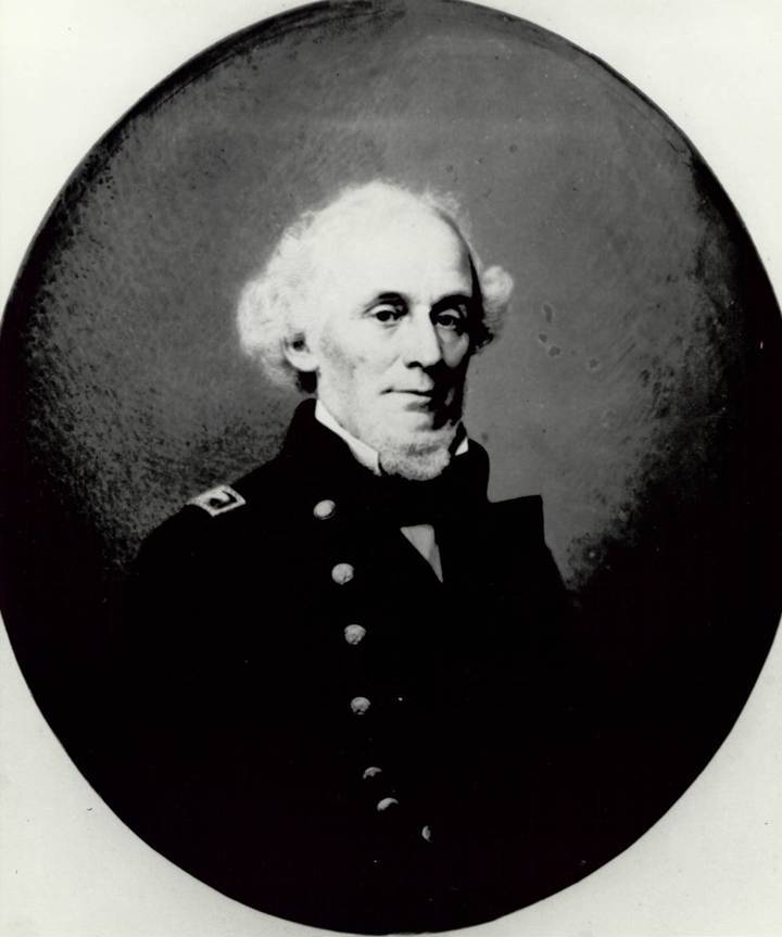 This is an official U.S. Army image and is part of the public domain.